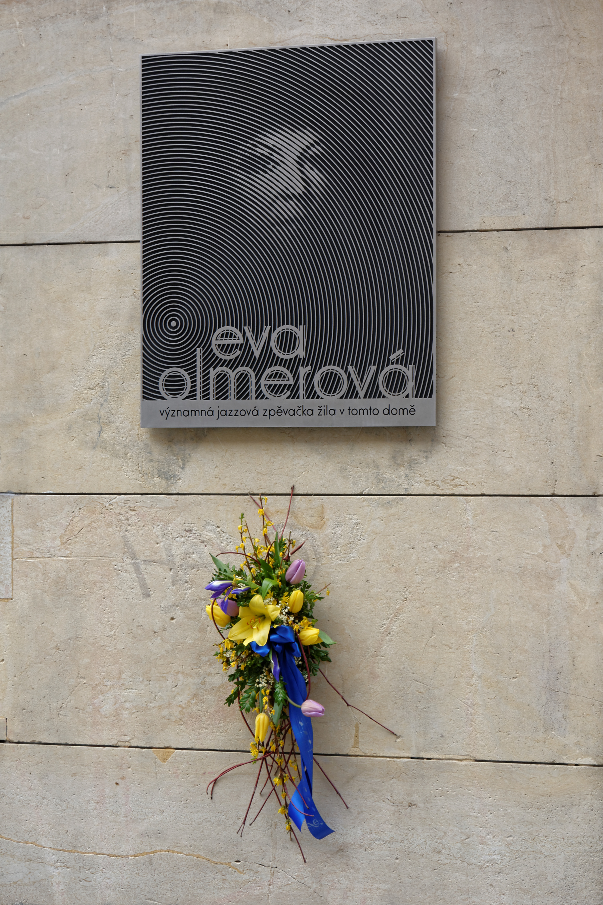 Memorial plaque to Eva Olmerová, Praha 6, Eliášova 21. Author: Dušan Váňa, unveiled 21 March 2016, Text: "Eva Olmerová Czech significant jazz singer lived in this house"